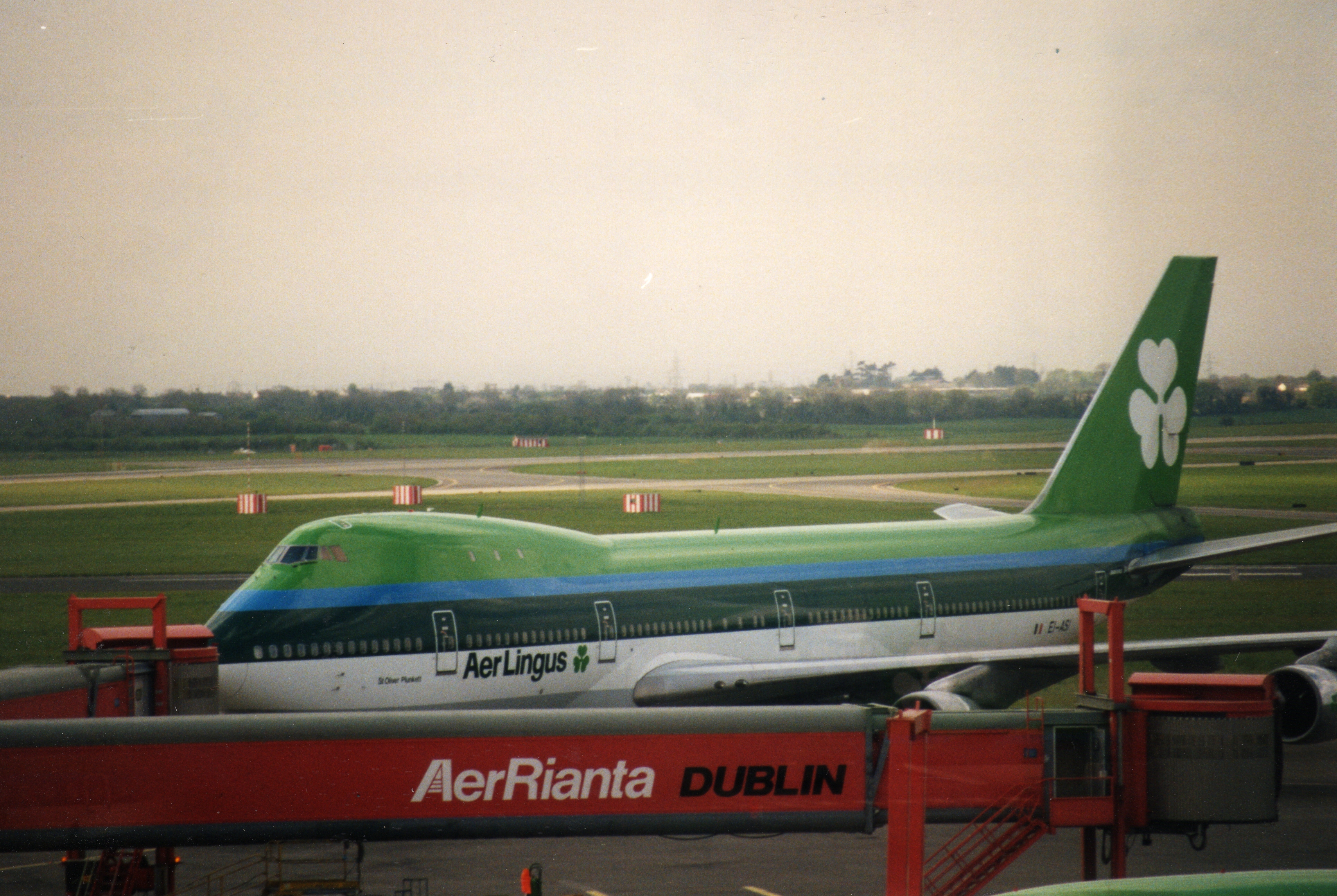 Aer Lingus (EI-ASI) Boeing 747-100 aircraft, Dublin Airport, Dublin, Republic of Ireland, May 1994